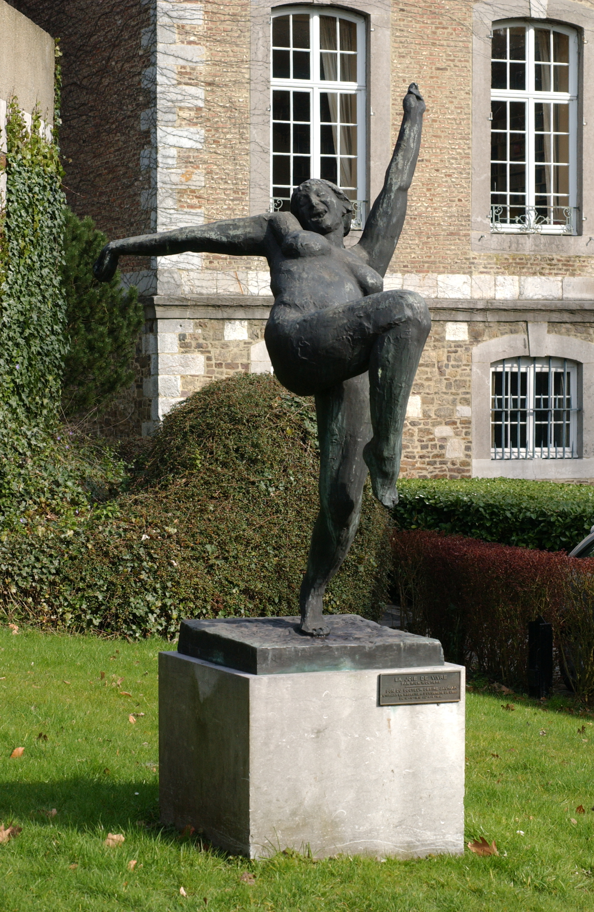 Rik Wouters, "The Mad Virgin", 1912, The Sart-Tilman Open-air Museum, Colonster Castle, University of Liège, Belgium.